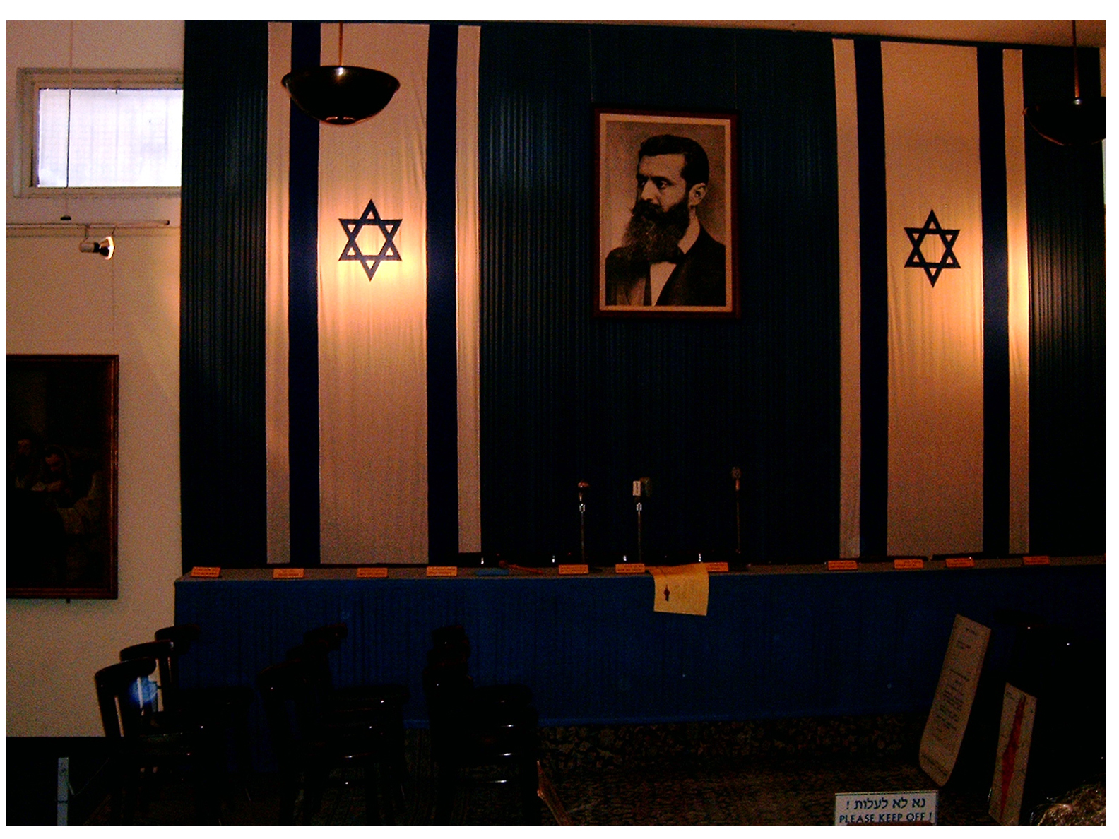 The inside of Dizengoff's house, where the State of Israel was declared.